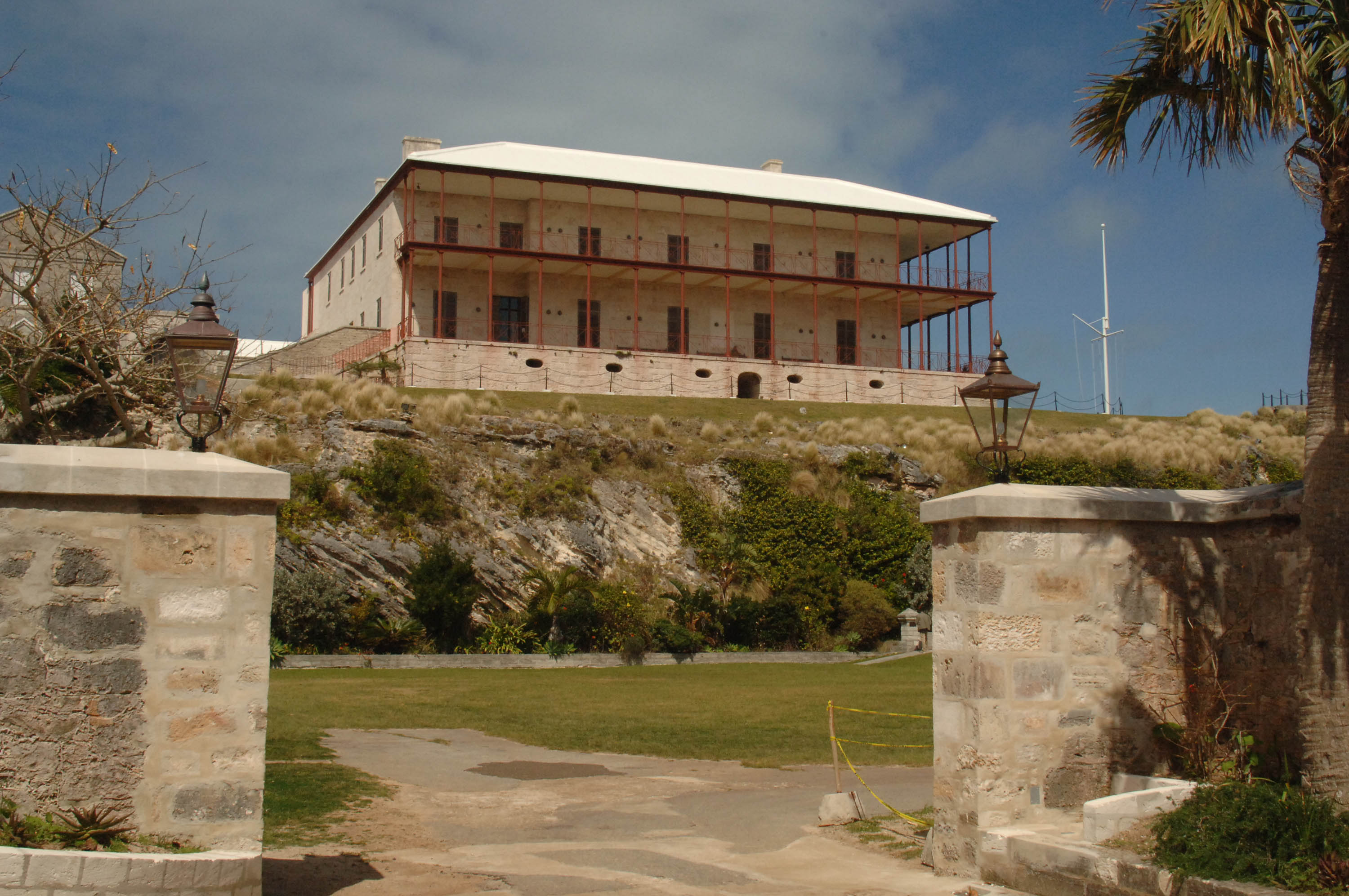 THE COMMISSIONER'S HOUSE SIKTS ATOP A HILL AT THE CENTER OF THE KEEP. IT WAS ERECTED CIRCA 1820 AS THE WORLD'S FIRST RESIDENCE USING PREFABRICATED CAST-IRON FOR ITS STRUCTURAL FRAMEWORK. IT HAS BEEN RESTORED AND IS NOW A MUSEUM